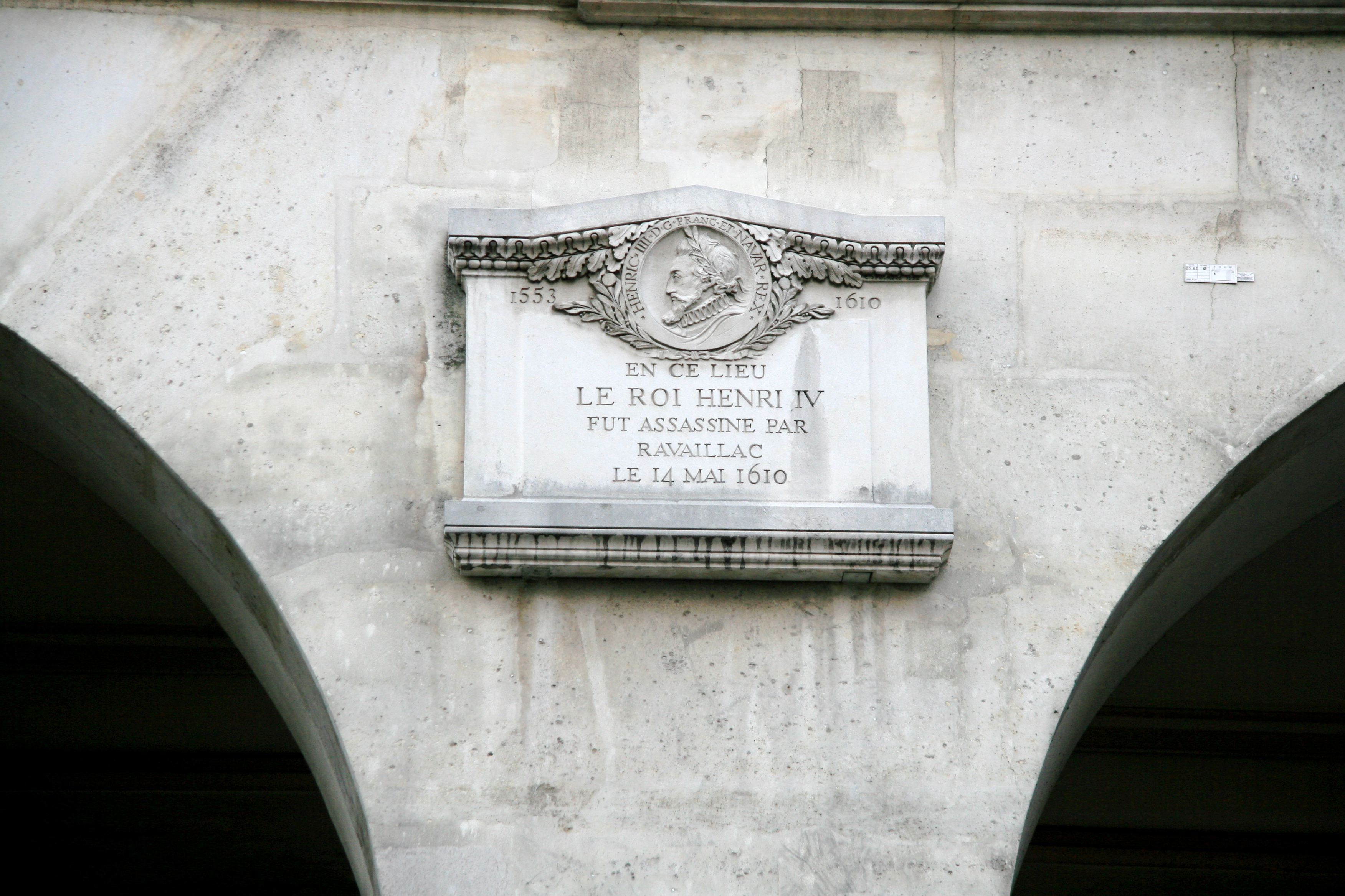 Plaque where Ravaillac murdered Henry IV, king of France in Paris.